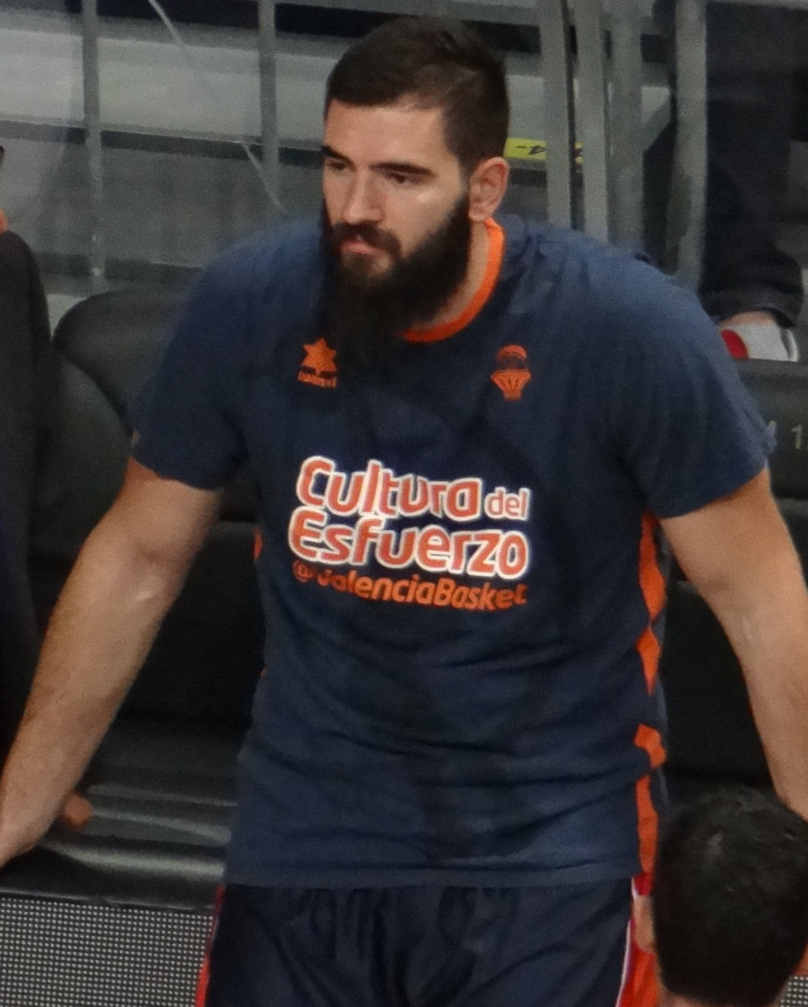 Fenerbahçe Men's Basketball vs Valencia Basket Euroleague 20171102